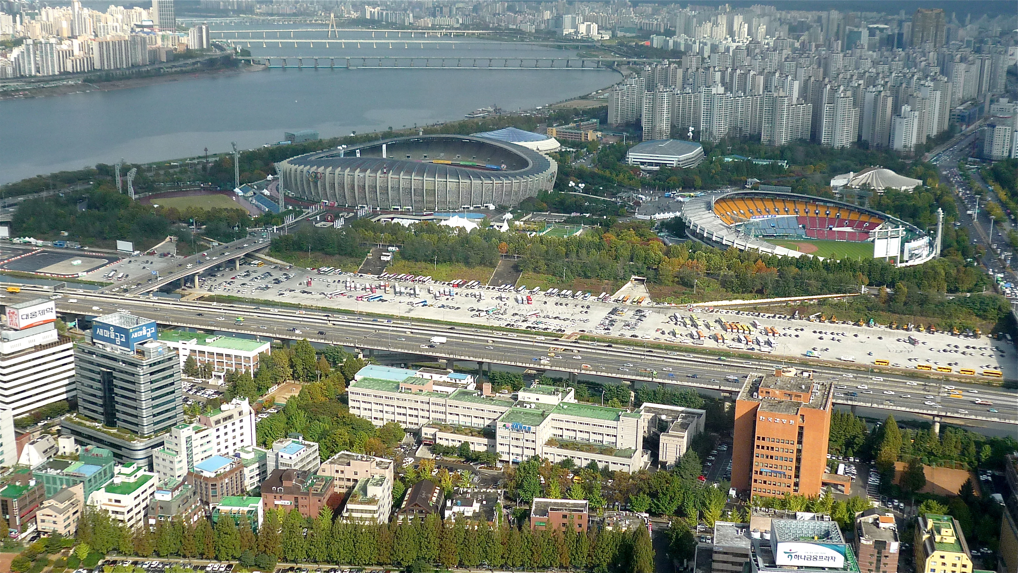 View from COEX Tower